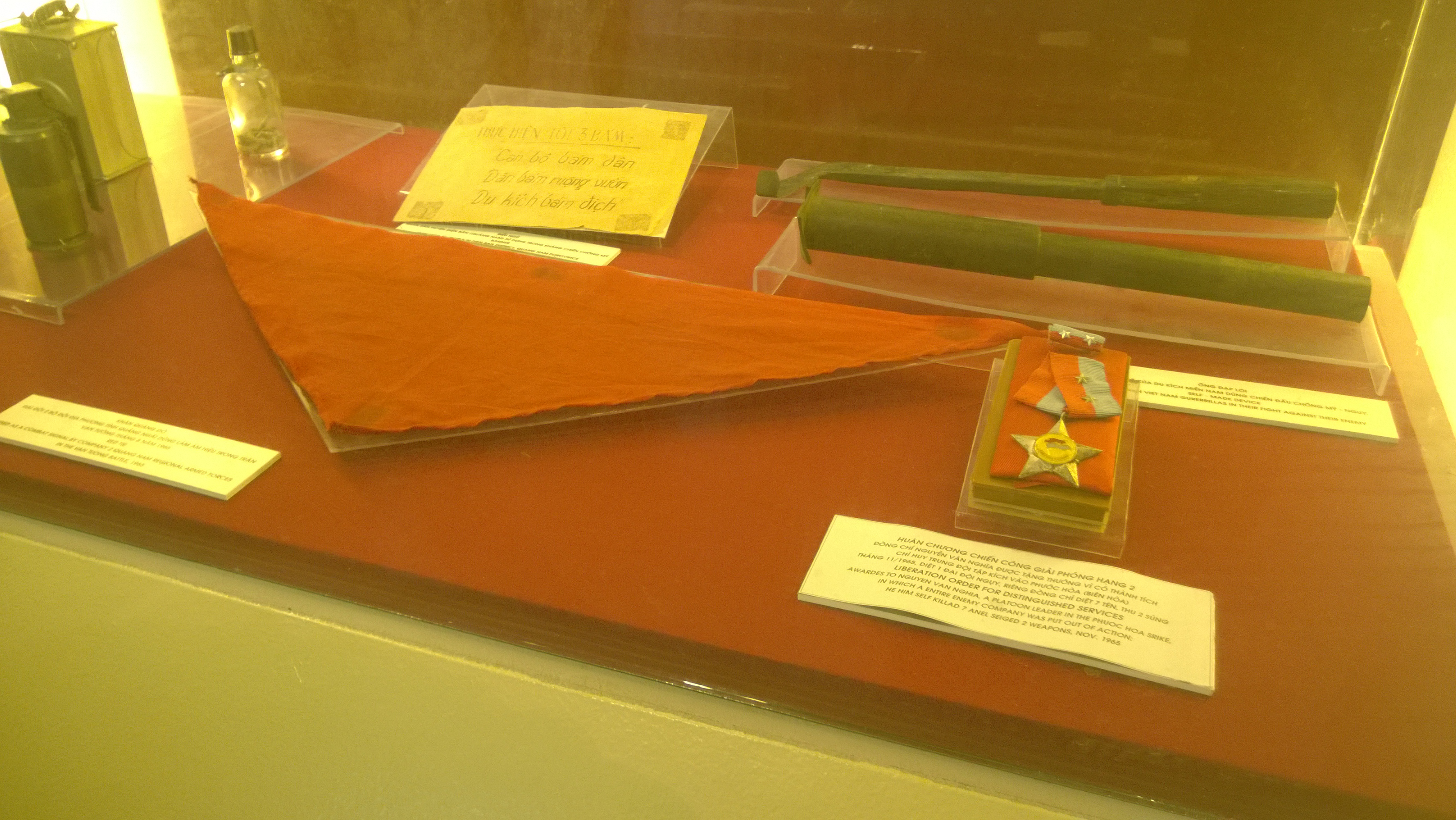 The Vietnam Military History Museum in the city of Hanoi in 2014.